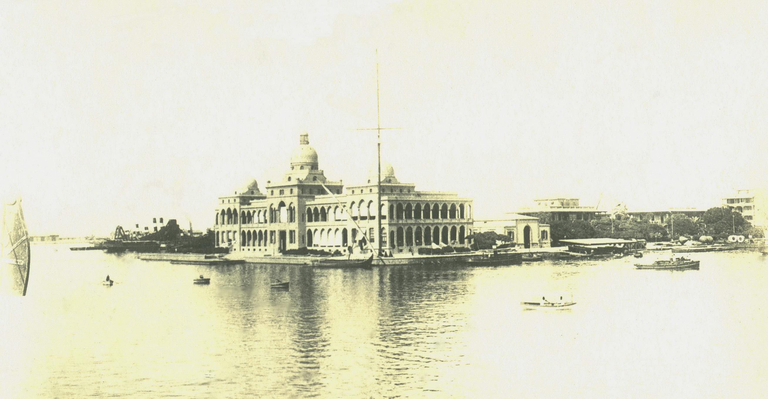 New old photo.